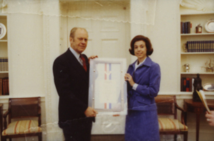 The photo contact sheet, identified as B2727 by the White House Photographic Office (WHPO), is housed at the Gerald R. Ford Presidential Library, a branch of the National Archives and Records Administration (NARA). This file is a 200 dpi photo contact sheet having images from roll of film B2727 of the August 9, 1974 - January 20, 1977 Gerald R. Ford White House Photographic Office Series A0001-A9999 and B0001-B2886 photographs. The date on the photo contact sheet is the date the roll of film was processed, not necessarily the date the photographs were taken. See table below for additional details.